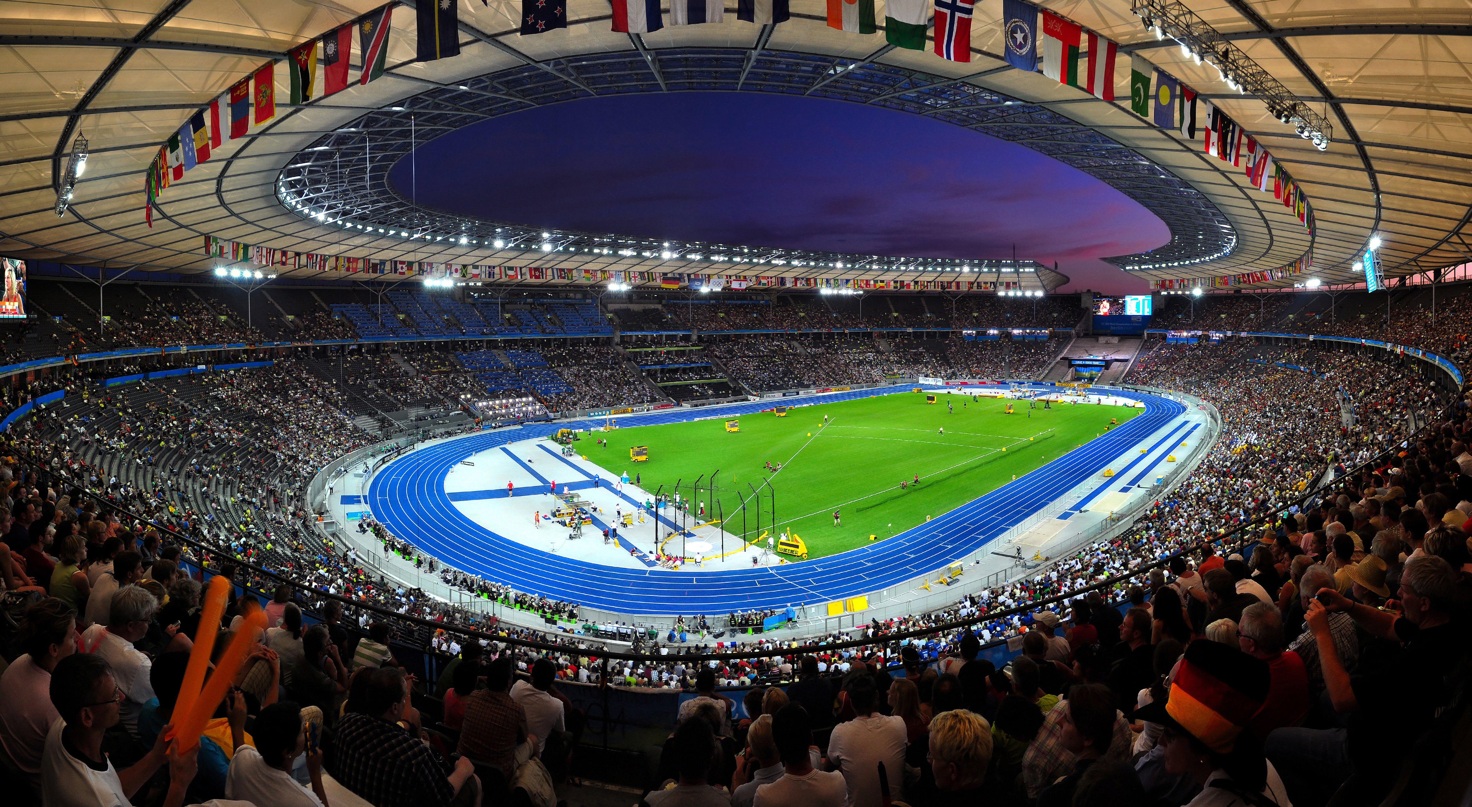 Panoramic view of the olympic stadium of Berlin during the 12th IAAF World Championships in Athletics